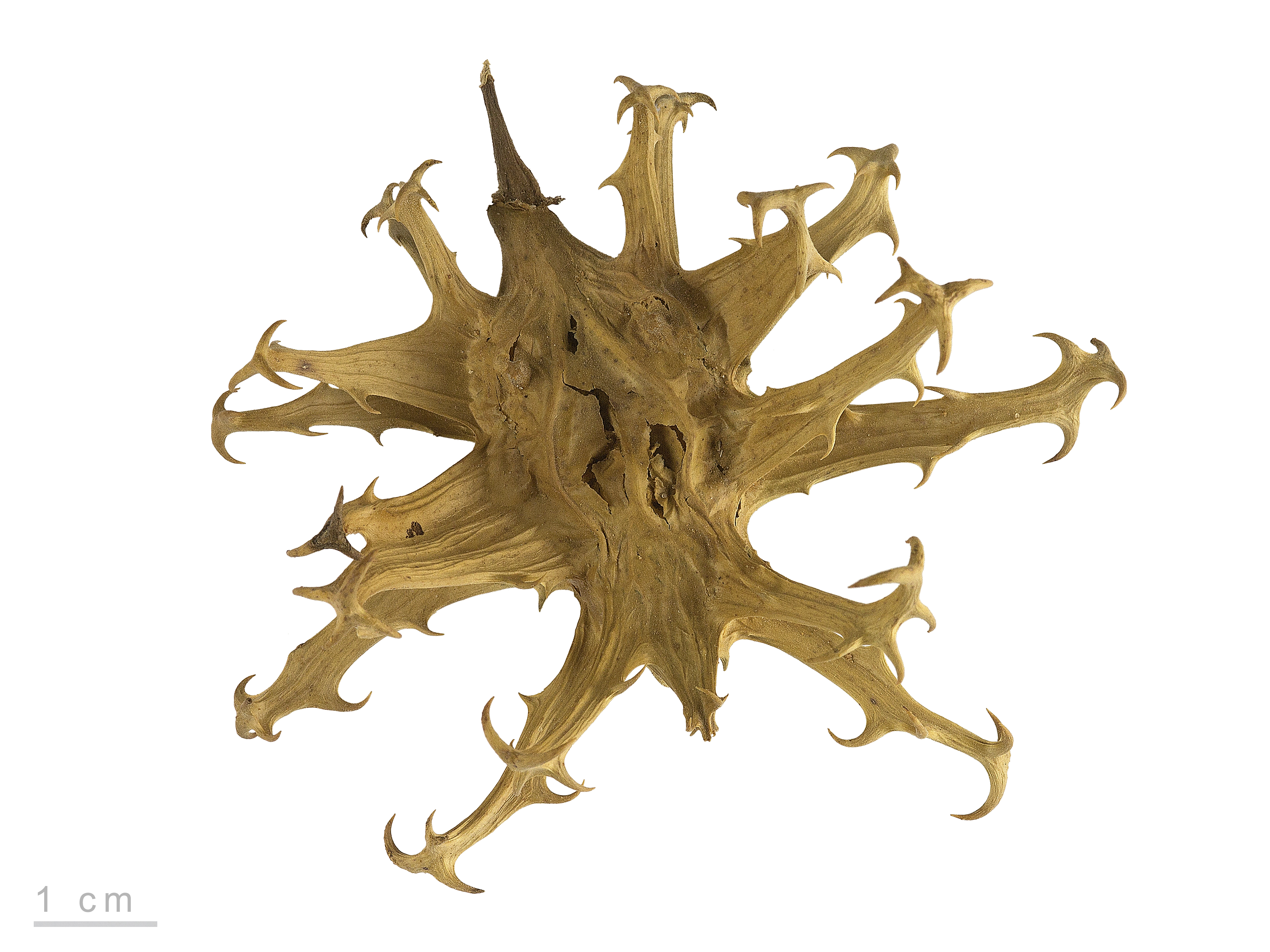 grapple plant, fruits and seeds